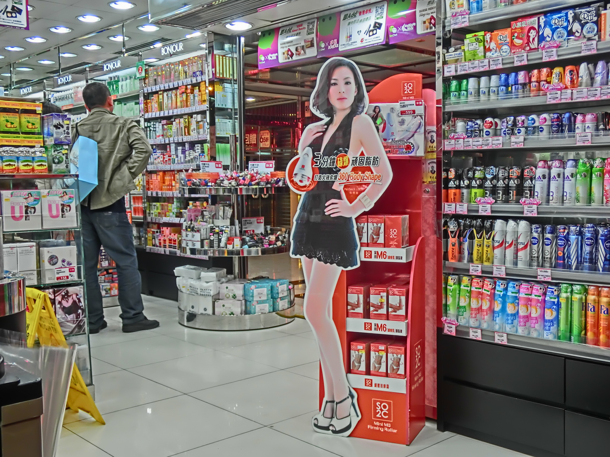 朱慧敏, Bonjour shop, Star House, Salisbury Road, 尖沙咀, Tsim Sha Tsui, Kowloon, Hong Kong